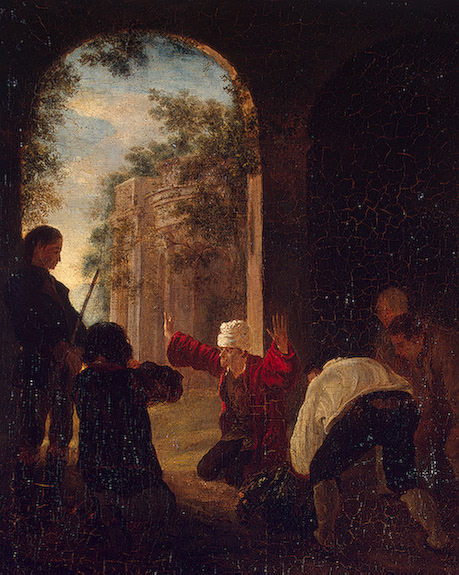 Voltaire on the theatre scene